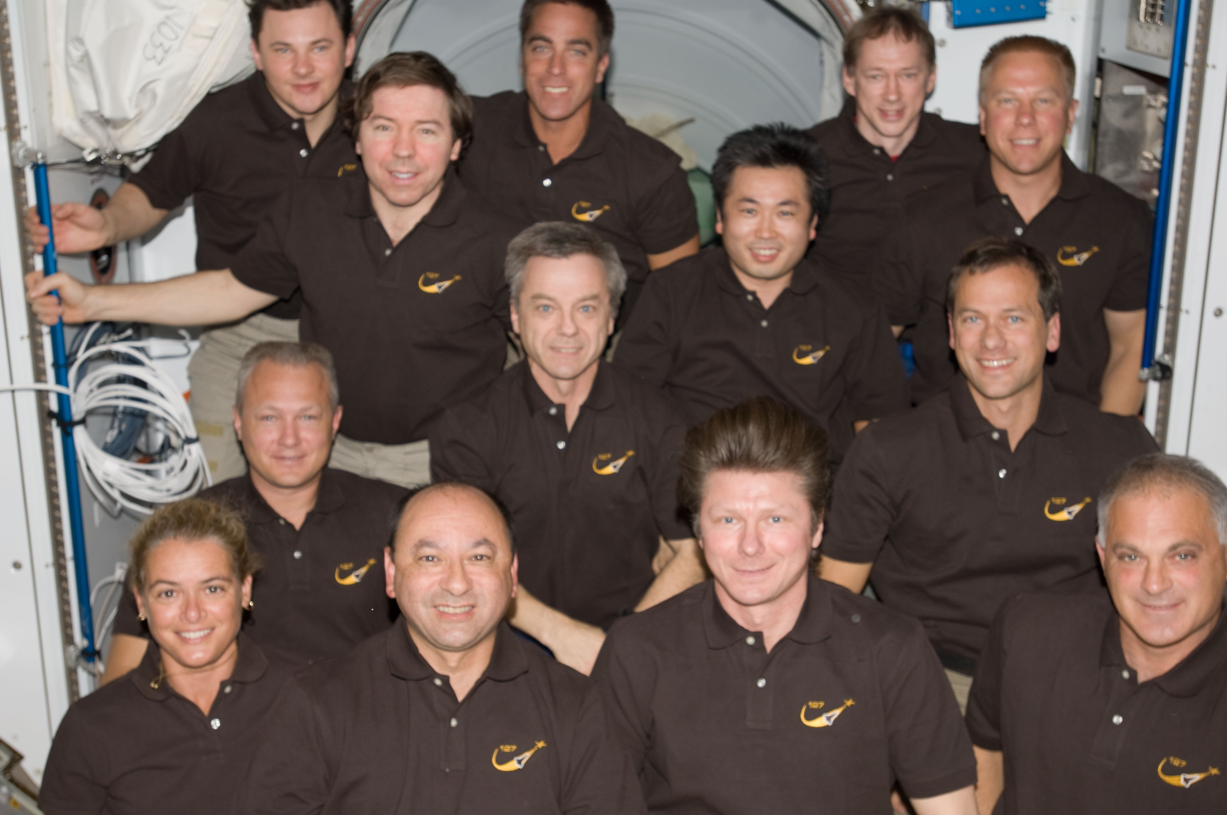 These 13 space fliers are spending more than a week together onboard the International Space Station, marking a population record on the orbital outpost. On front row, left to right, are Canadian Space Agency astronaut Julie Payette, astronaut Mark Polansky, Russian Federal Space Agency cosmonaut Gennady Padalka and astronaut Dave Wolf. On second row, are astronaut Doug Hurley, Canadian Space Agency astronaut Robert Thirsk, Japanese Aerospace Exploration Agency astronaut Koichi Wakata and astronaut Tom Marshburn. On the back row are Russian Federal Space Agency cosmonaut Roman Romanenko, astronauts Mike Barratt and Christopher Cassidy, along with European Space Agency astronaut Frank DeWinne and astronaut Tim Kopra.